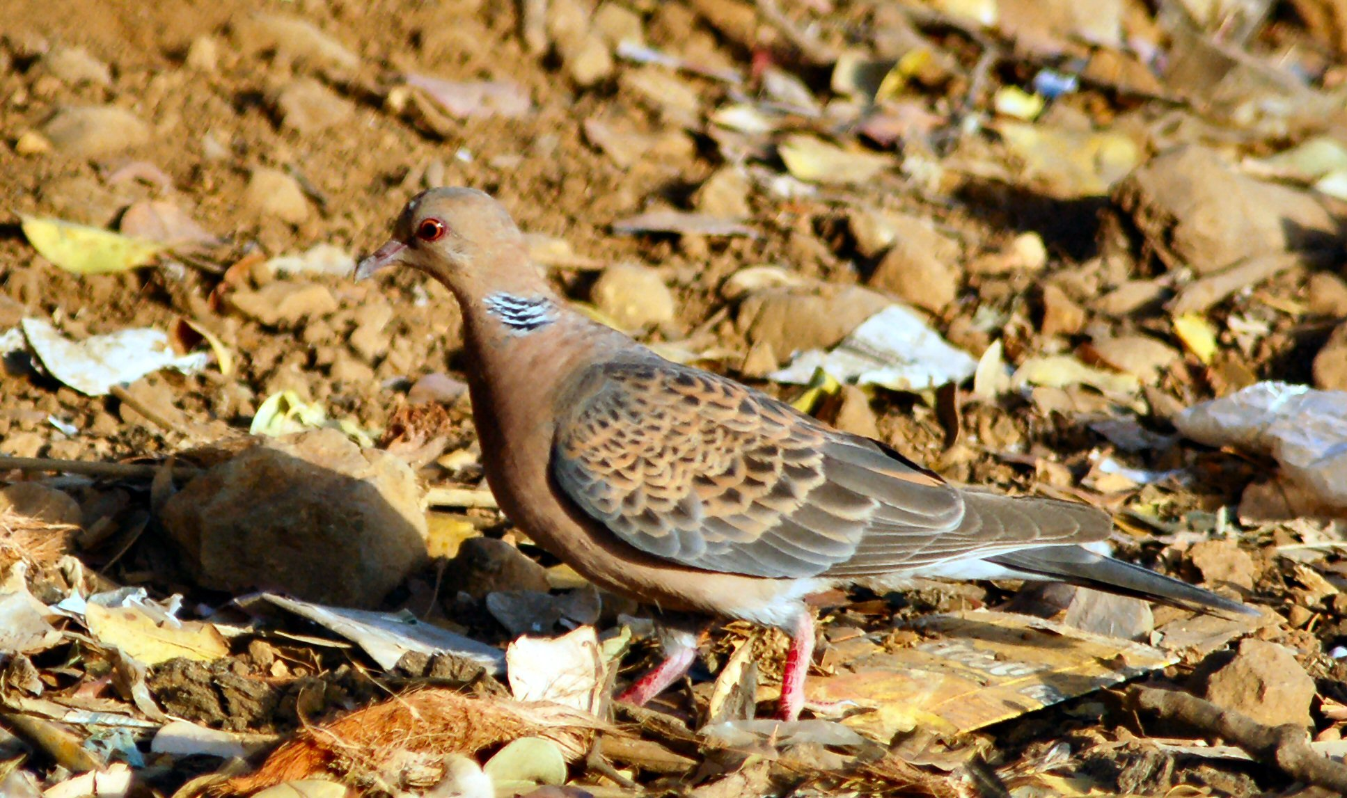 Oriental Turtle Dove : (Streptopelia orientalis) in Satara